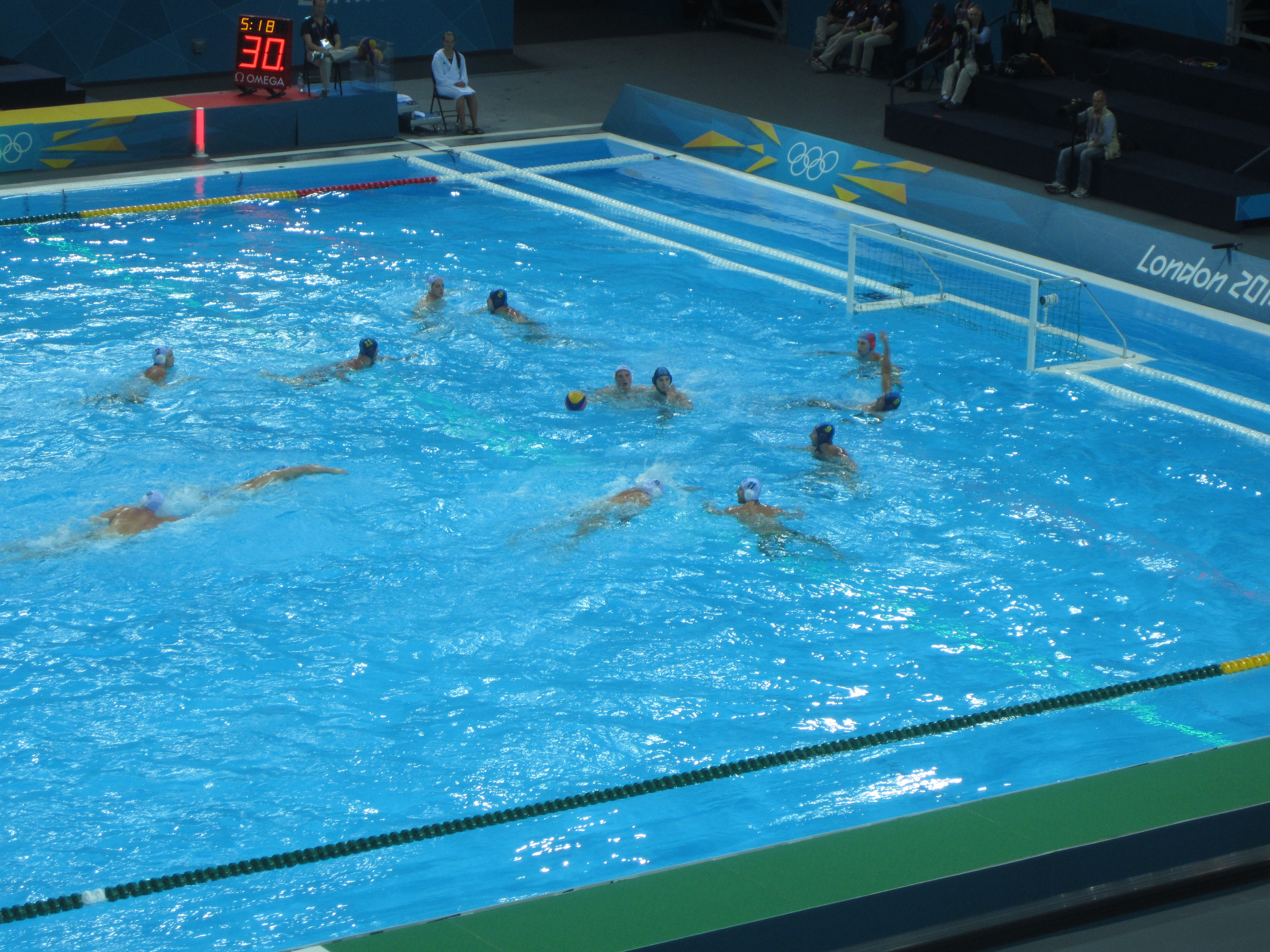 Khazakstan versus Australia, I think.